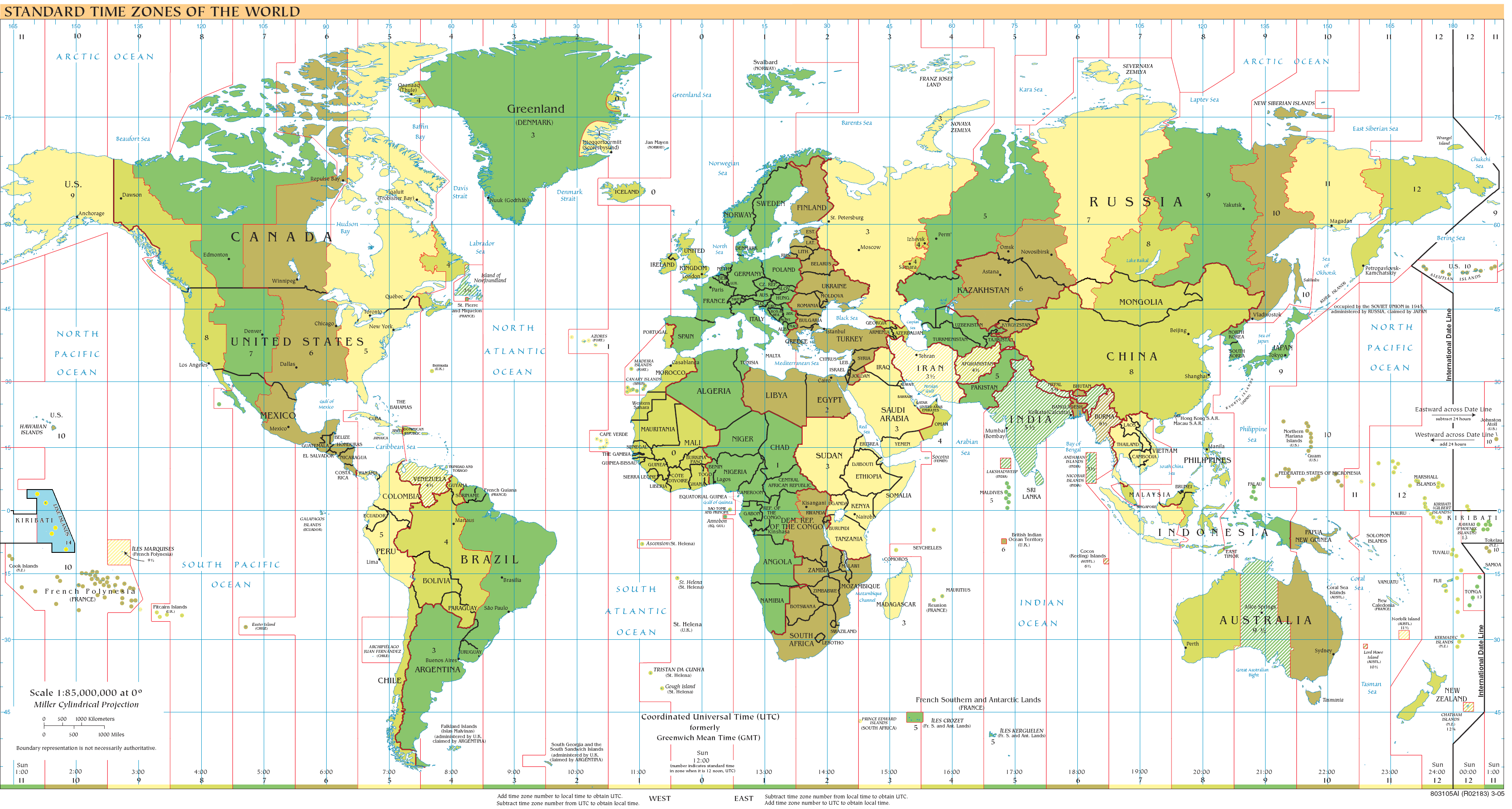 Copy of Timezones2008.png Edited to show UTC+14 Light Blue - UTC+14 Sea Areas Yellow - UTC+14 all year round